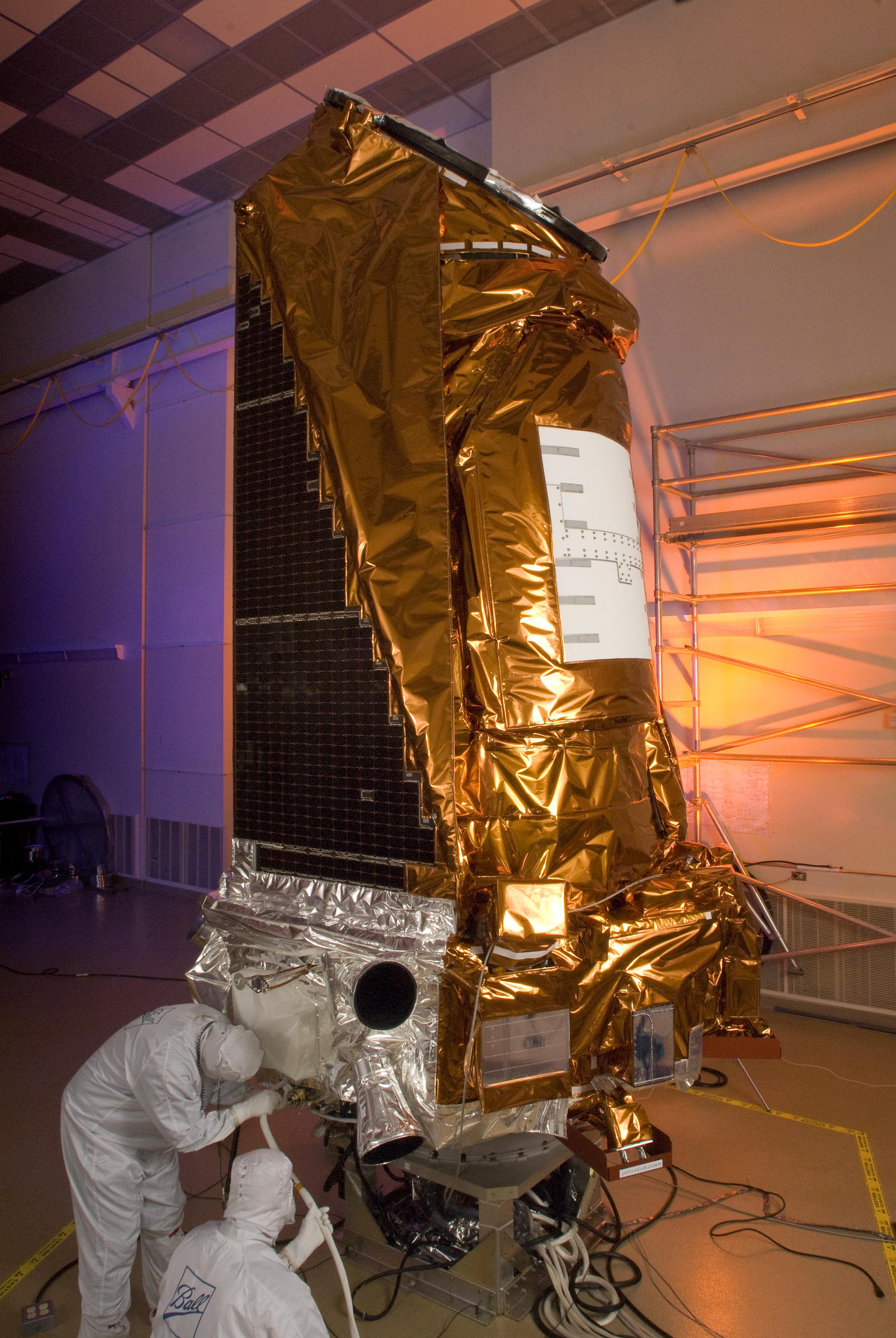 The Kepler spacecraft shown at Ball Aerospace preparing to be shipped to Florida.